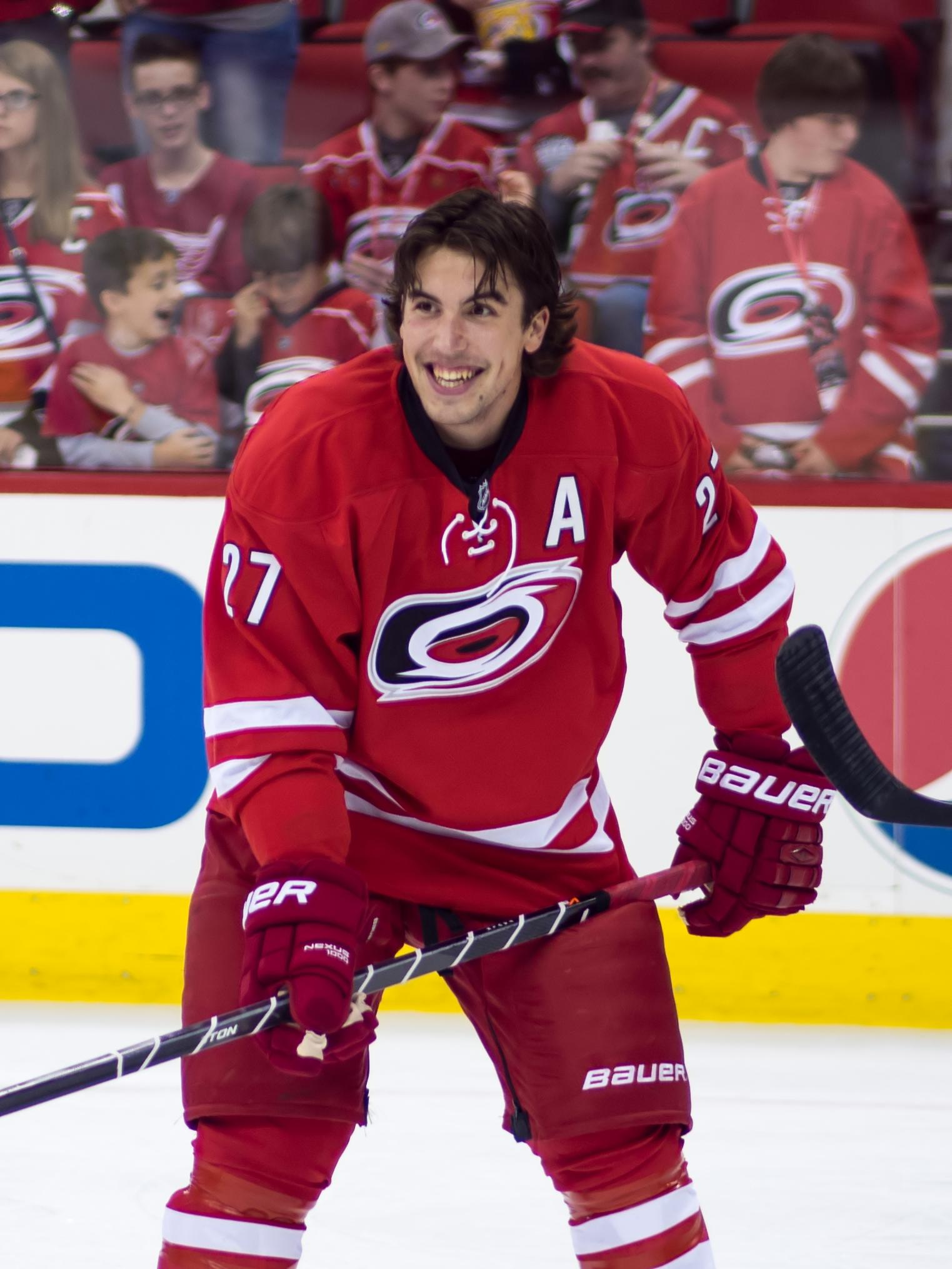 Justin Faulk, Canadian ice hockey defenseman